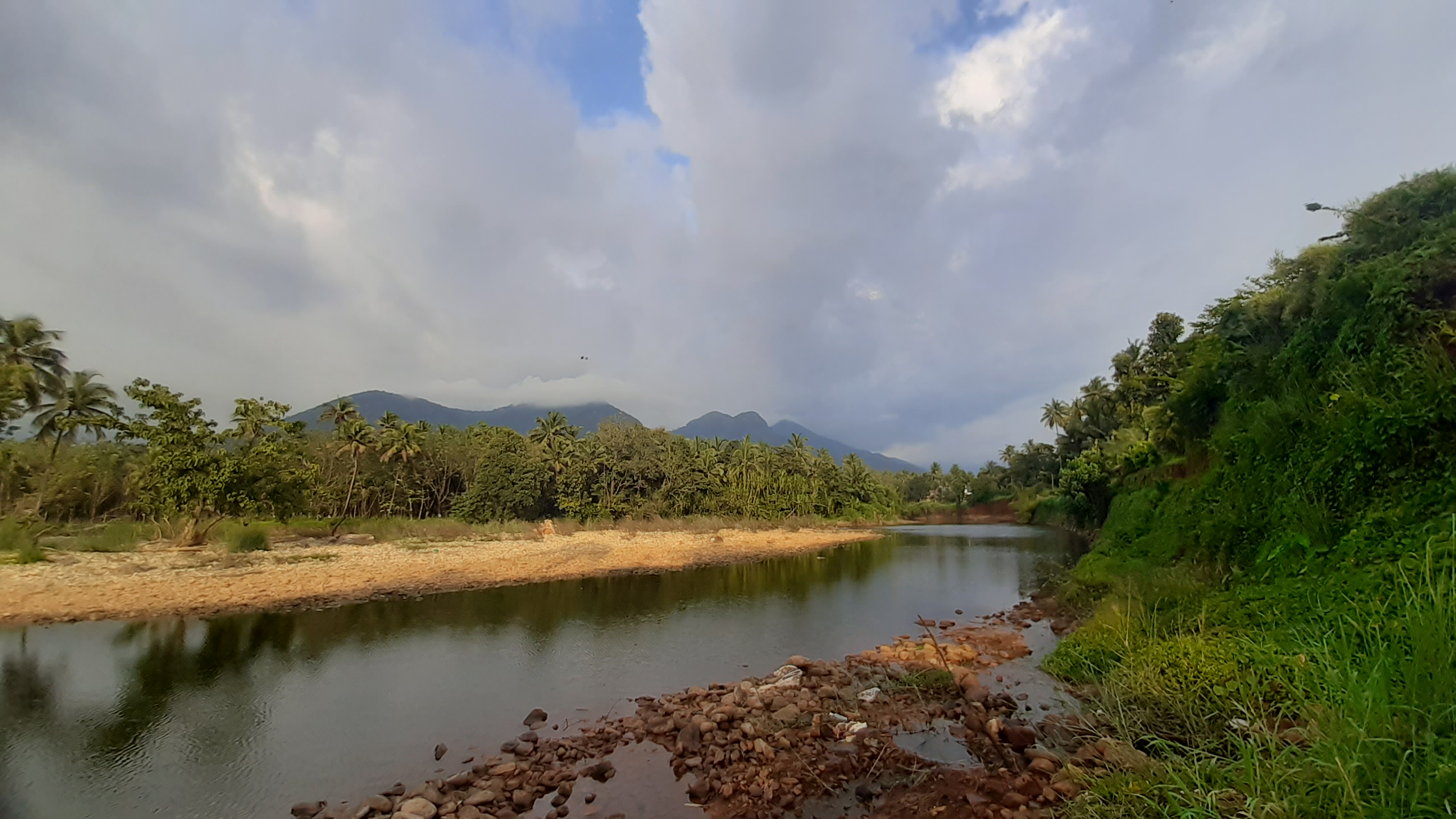 River Bavali is a river flowing through the Kottiyoor wildlife sanctuary in Kannur district of Kerala.